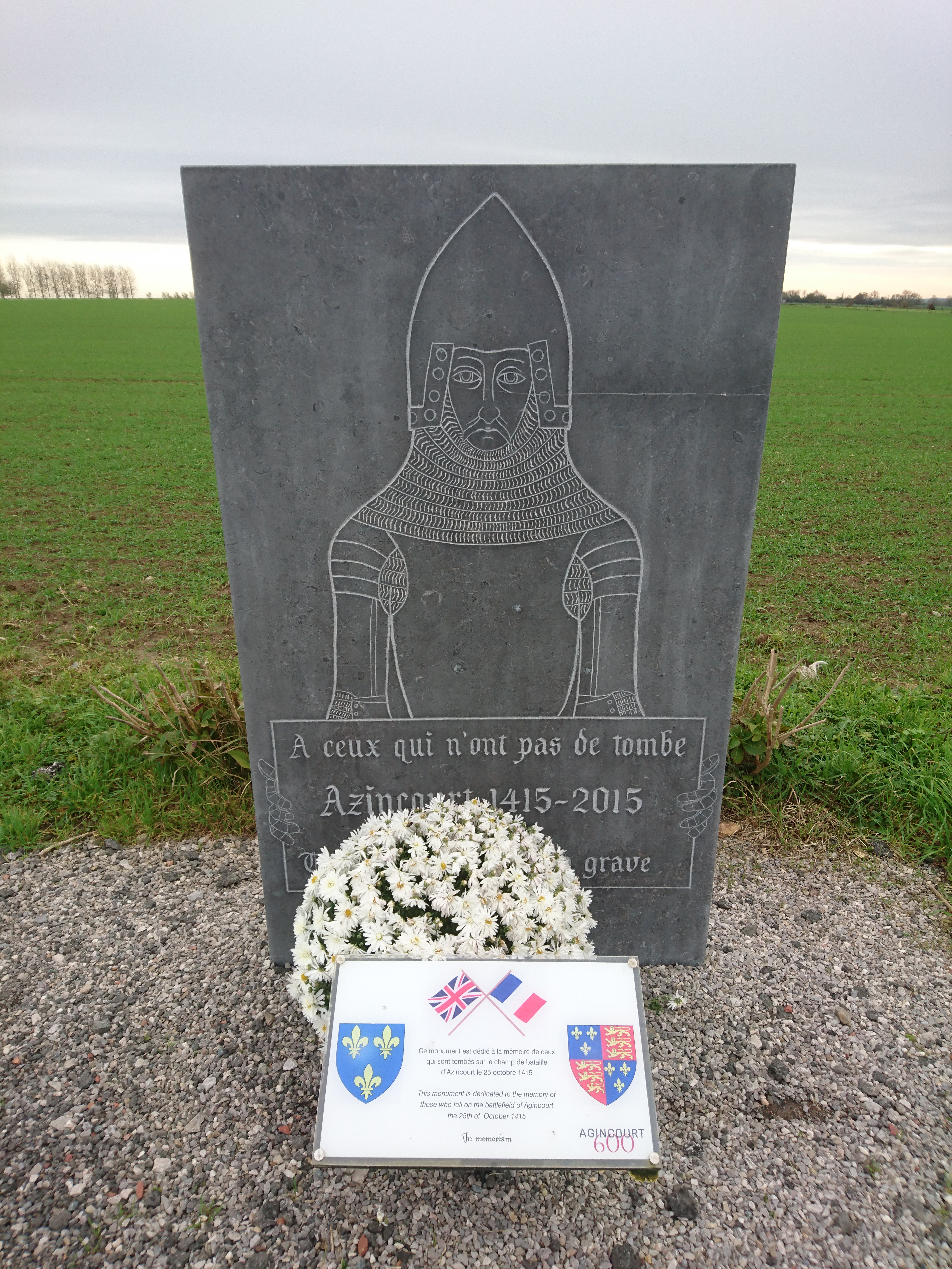 The memorial to commemorate the 600th anniversary of the Battle of Agincourt in 2015. Photographed 9 November 2017.